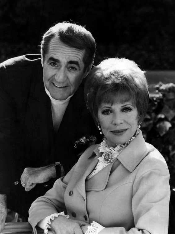 Photo of Jim and Henny Backus, who were husband and wife in real life. The photo is from the short lived television program Blondie, where the couple played Mr. and Mrs. Dithers.